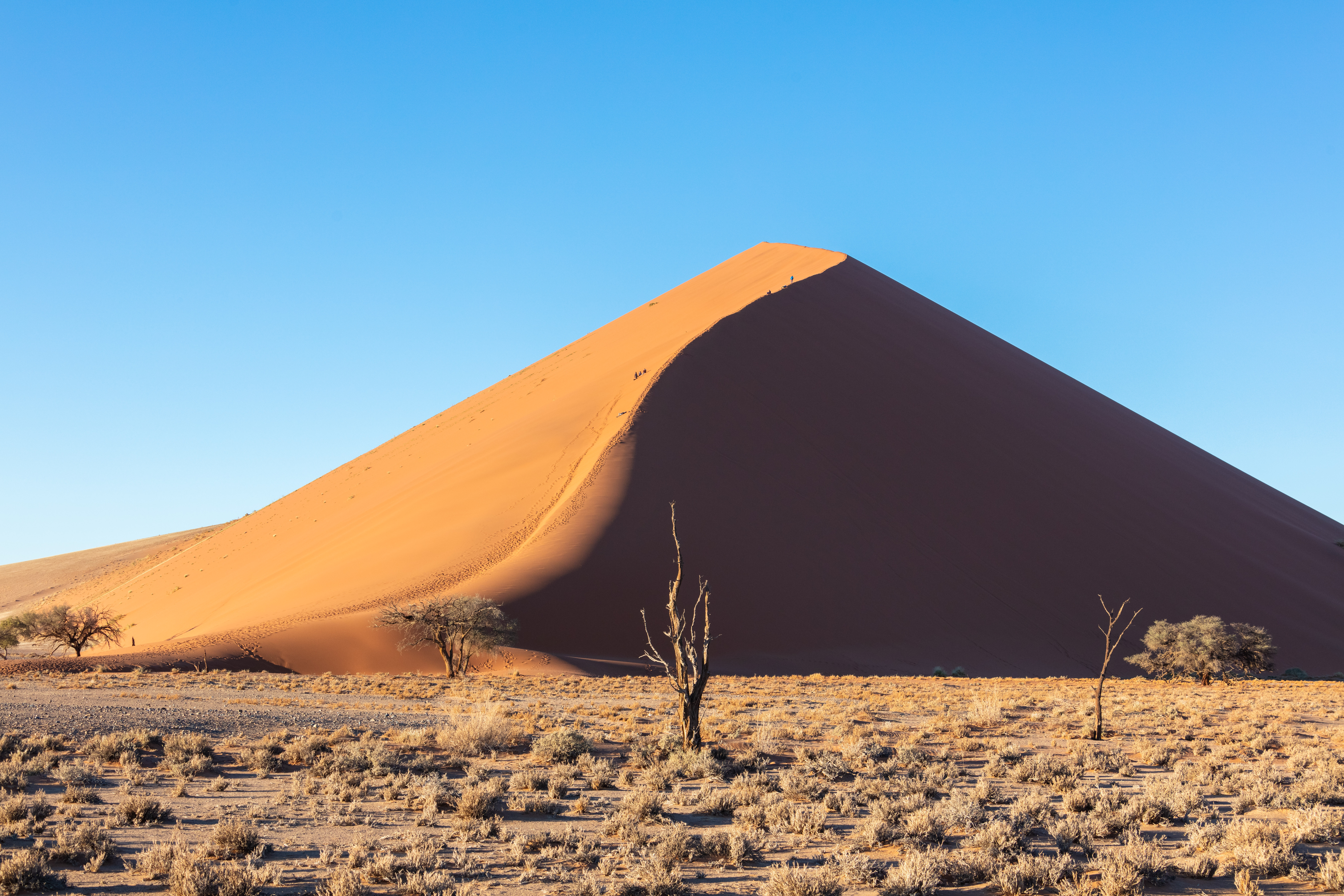 Dune in Sossusvlei, Namibia